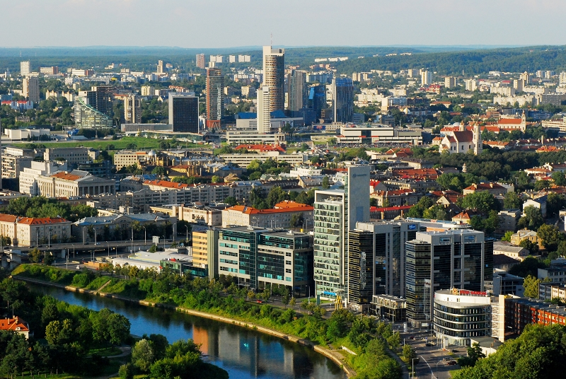 Vilnius center view. Europa tower, Municipality, Swedbank buildings, hotel Lietuva are in the center of photograph. The church of St.Philip and St. Jacob is in the right. National Library is in the left. Viktoria,MG Baltic,Buisness triangle, Ukio bank buildings are in the bottom right-hand corner.